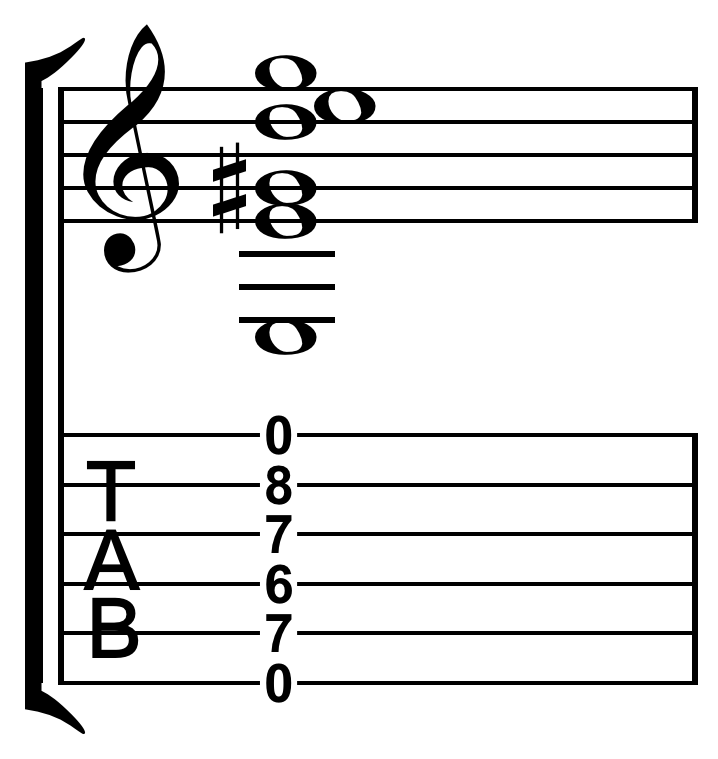 Hendrix chord guitar open, created using Sibelius.